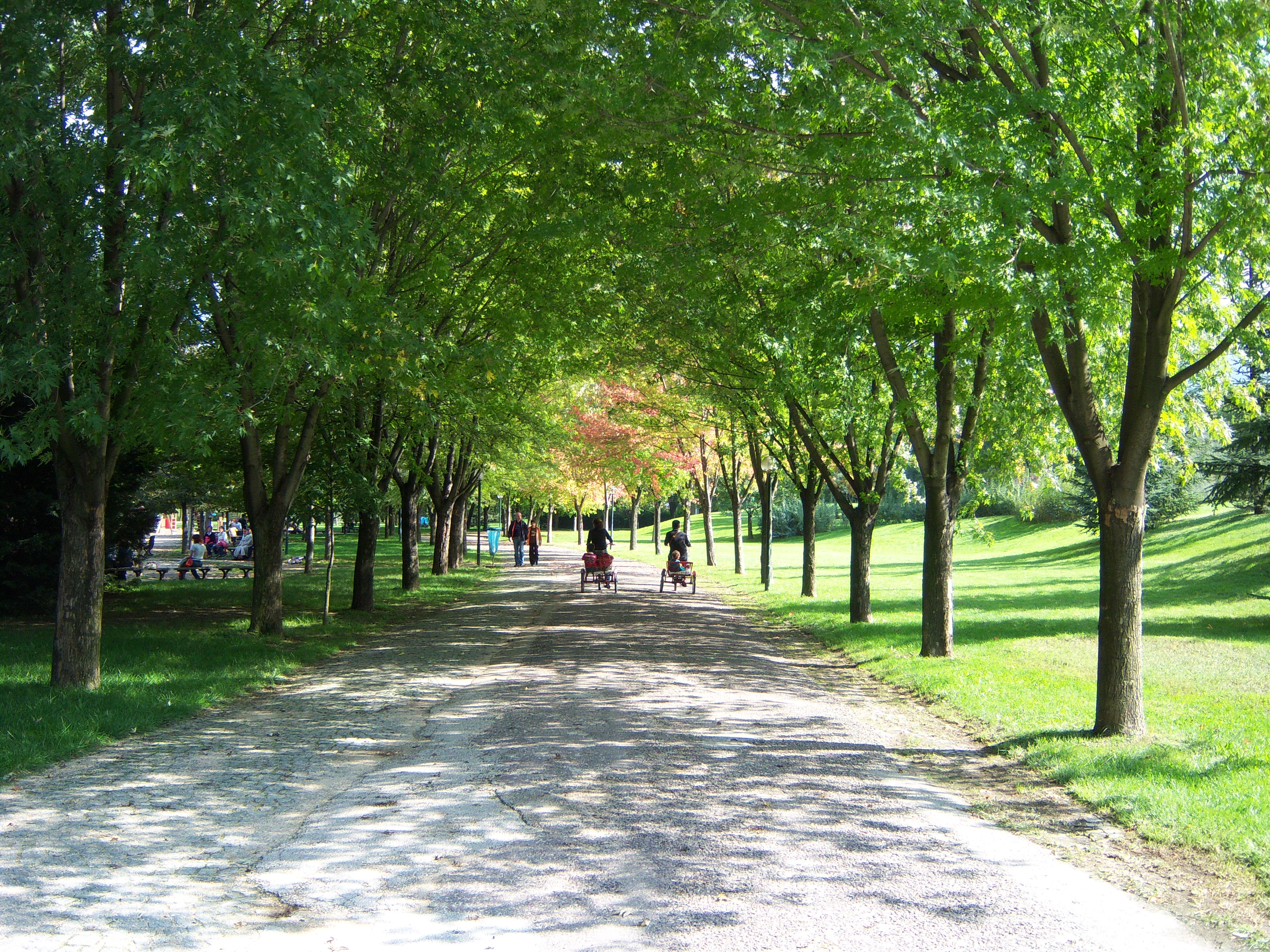 A wonderfull sight in Bursa Botanic Park